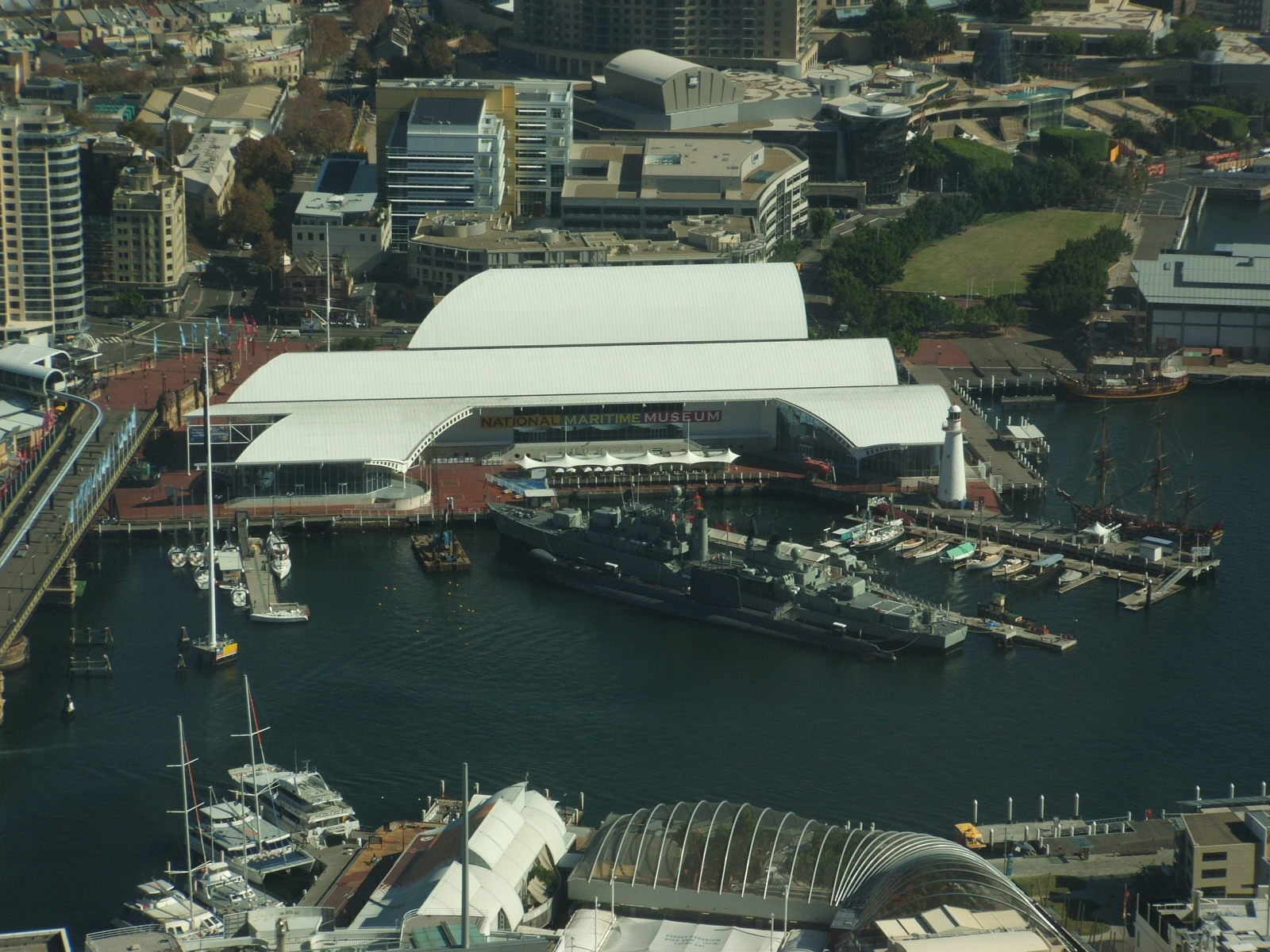 Photograph of the Australian National Maritime Museum building at Darling Harbour, Sydney Australia. Shows the exterior structure as well as the vessels that make up the museum's Historic Vessels collection. Photograph was taken from the observation deck of Centrepoint Tower.